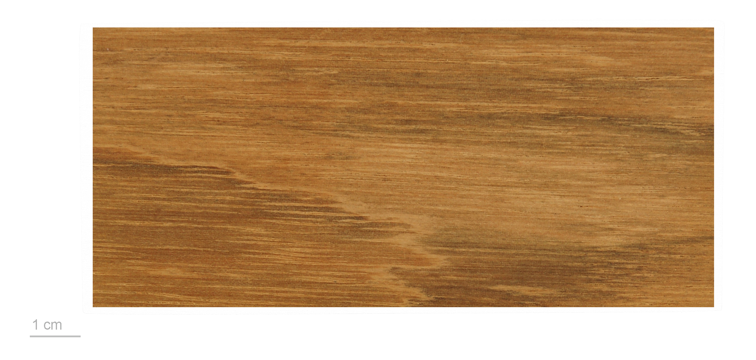 jatoba , wood